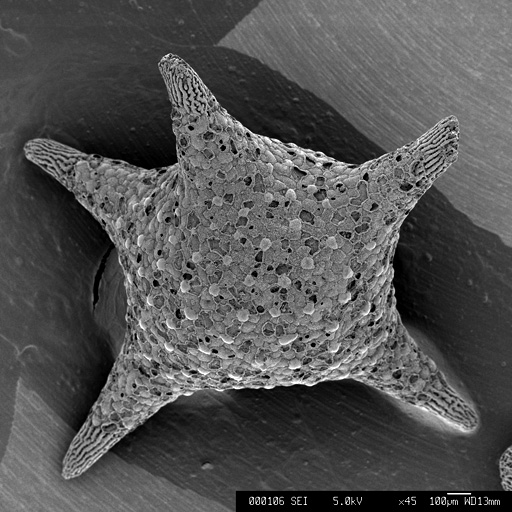 Baculogypsina sphaerulata Parker & Jones / from Iriomote Island, Okinawa Pref., Japan / SEM:JEOL JSM-6330F